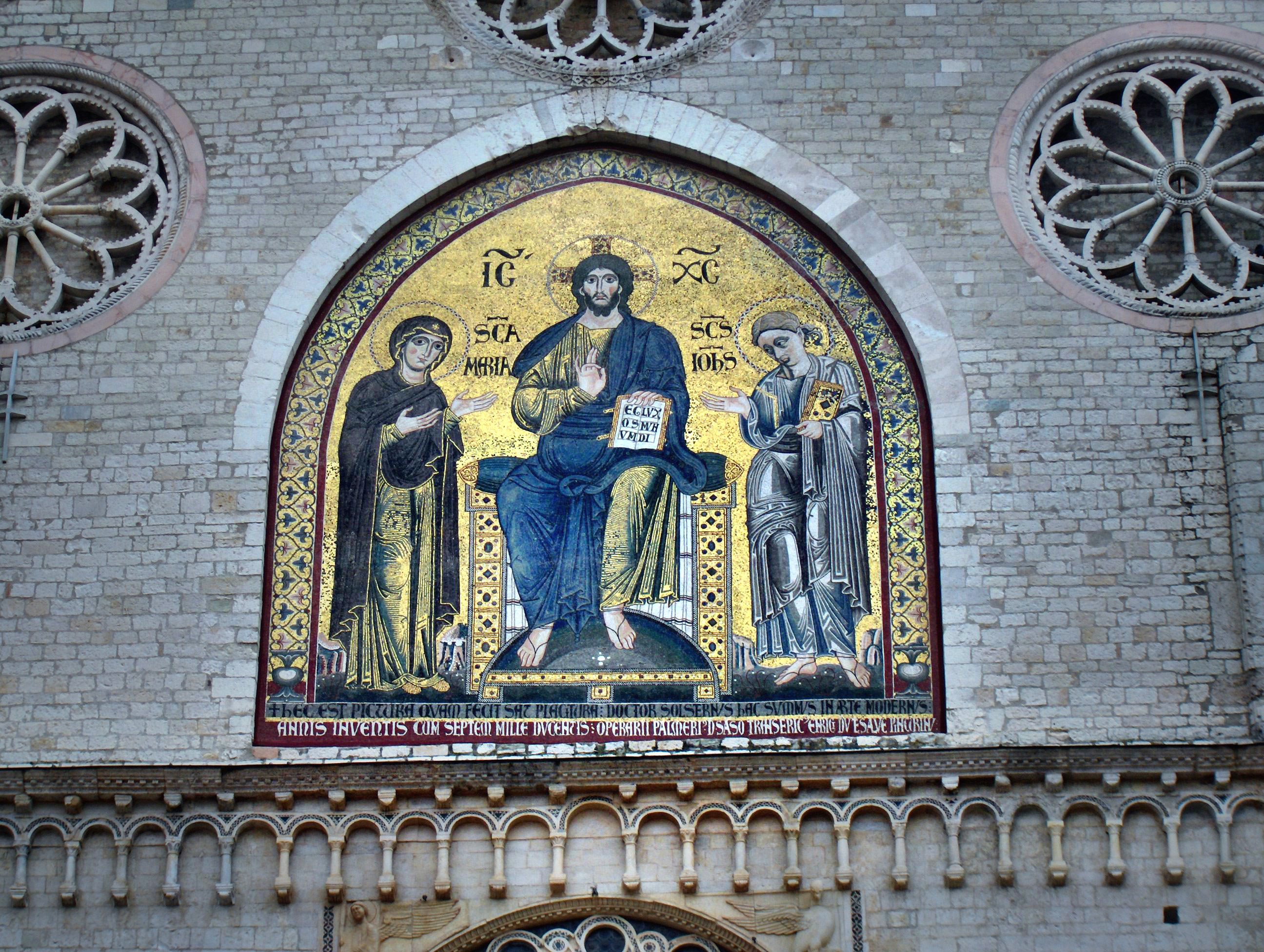 Mosaic "Blessing Christ" (1207) by the Byzantine Solsternus; cathedral of Spoleto, Italy